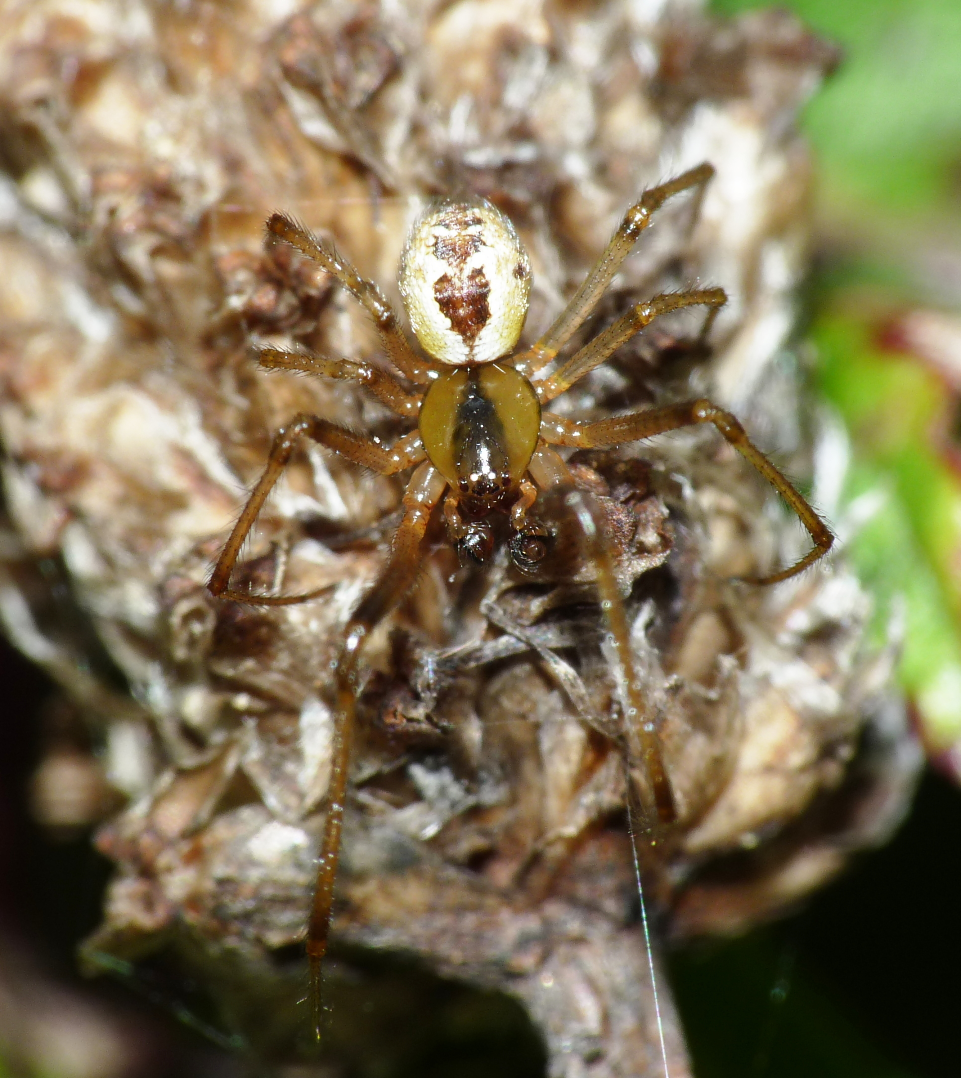 Kochiura aulica, male, near Livorno, Tuscany, Italy